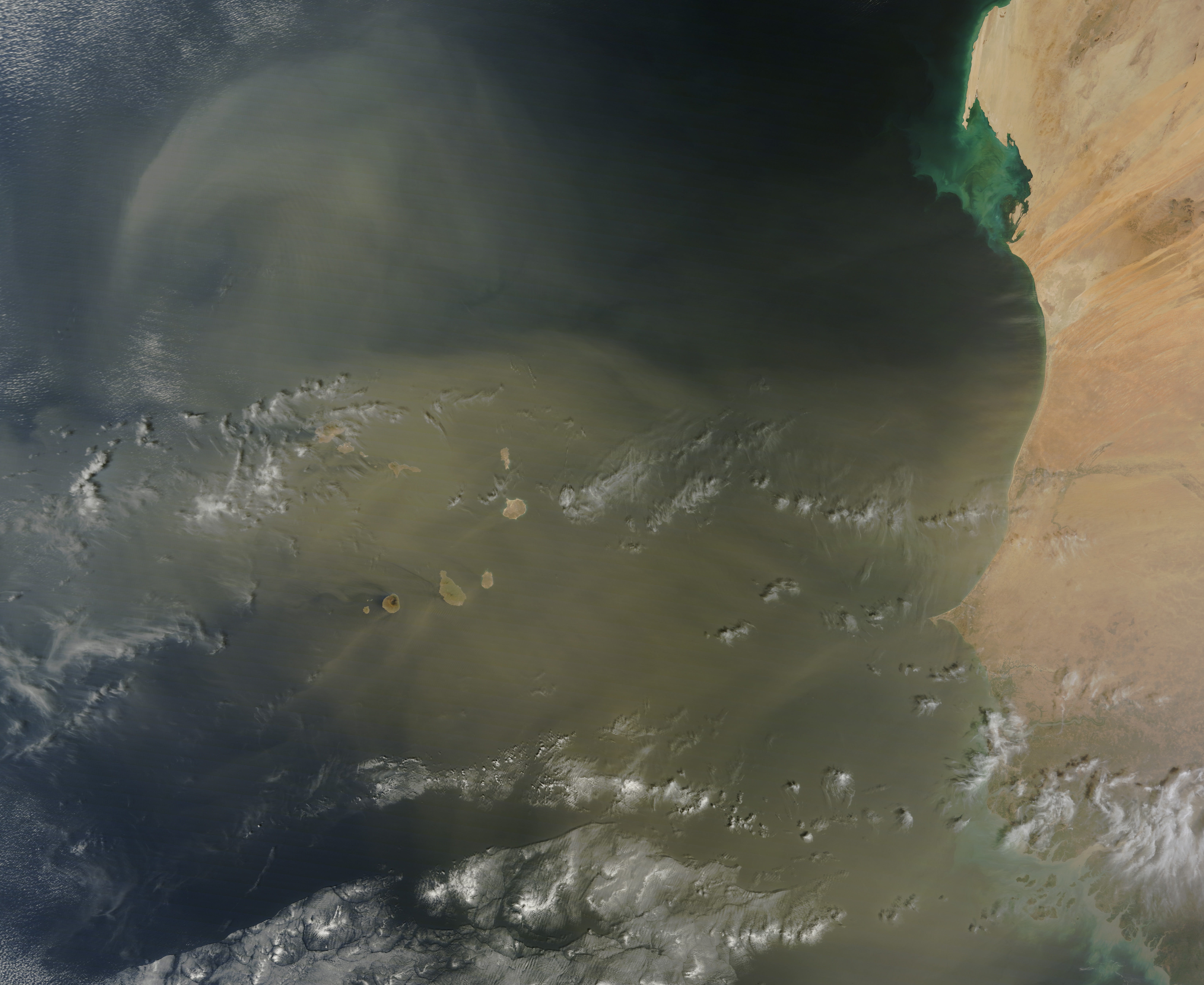 אבק מדברי מתרומם ממאוריטניה וסנגל, הנמצאות על חופה המערבי של אפריקה, ומוסע מערבה מעל האוקיינוס האטלנטי